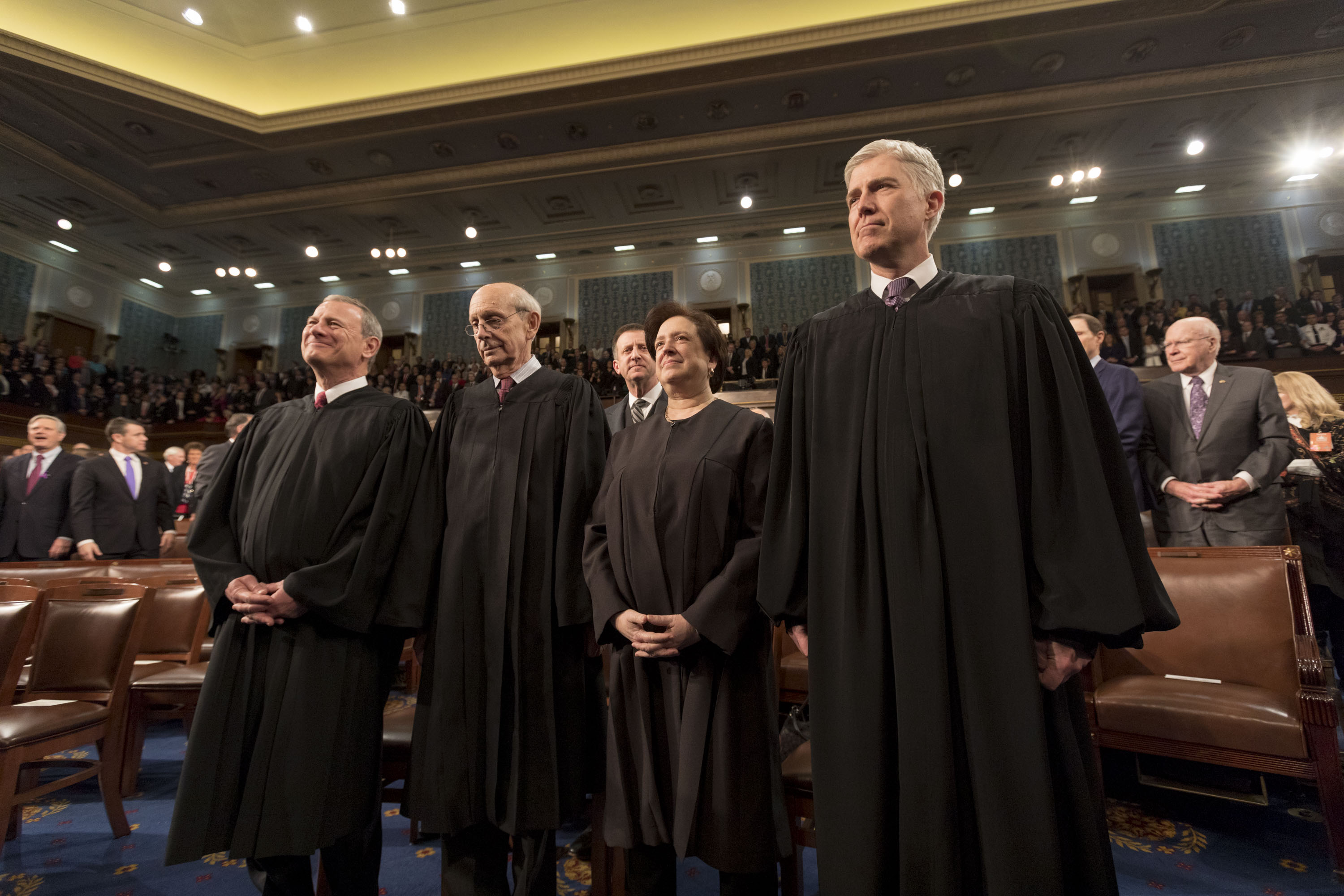 State of the Union 2018 (Official White House Photo by D. Myles Cullen)